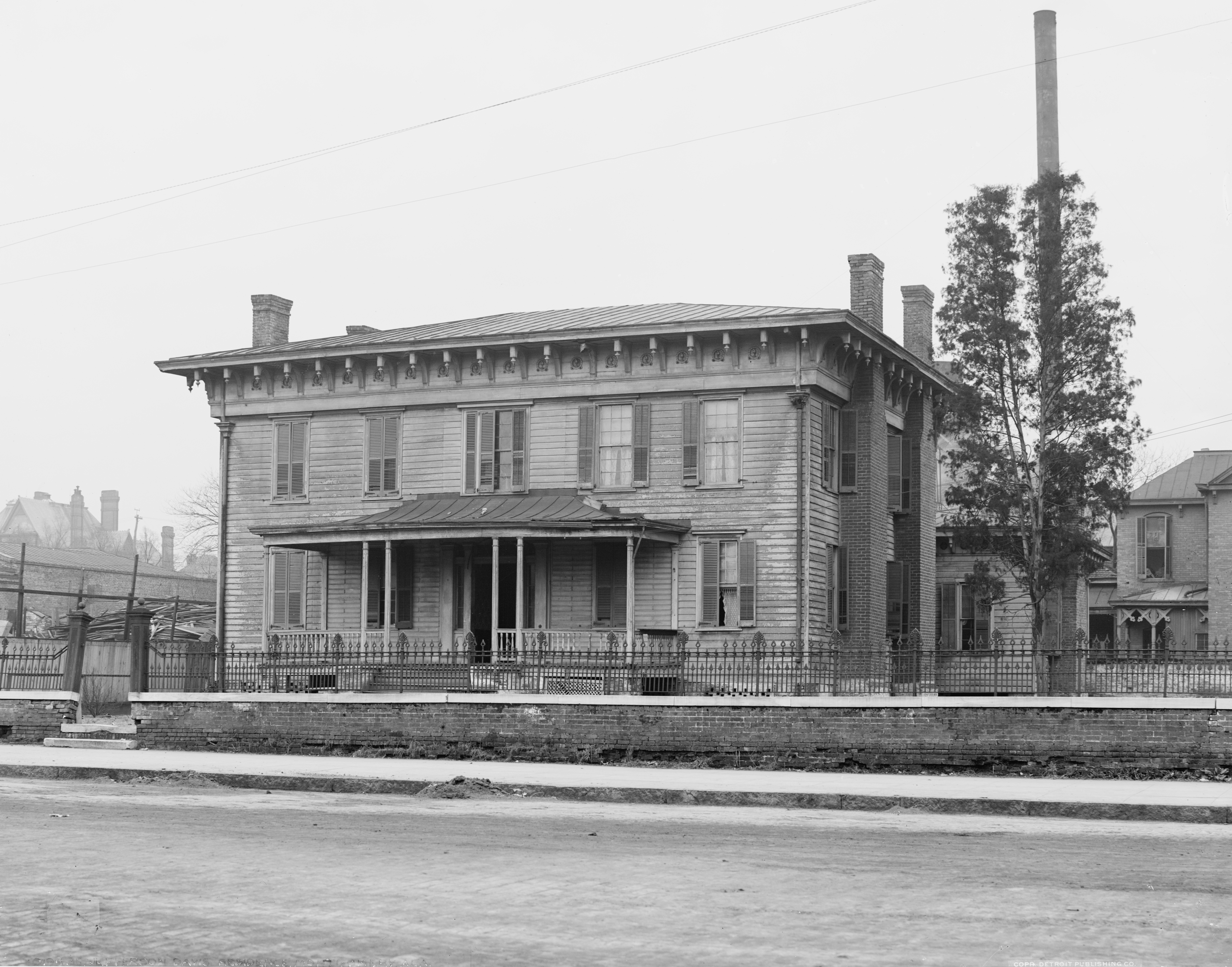 The First White House of the Confederacy, at its original location at Bibb & Lee streets